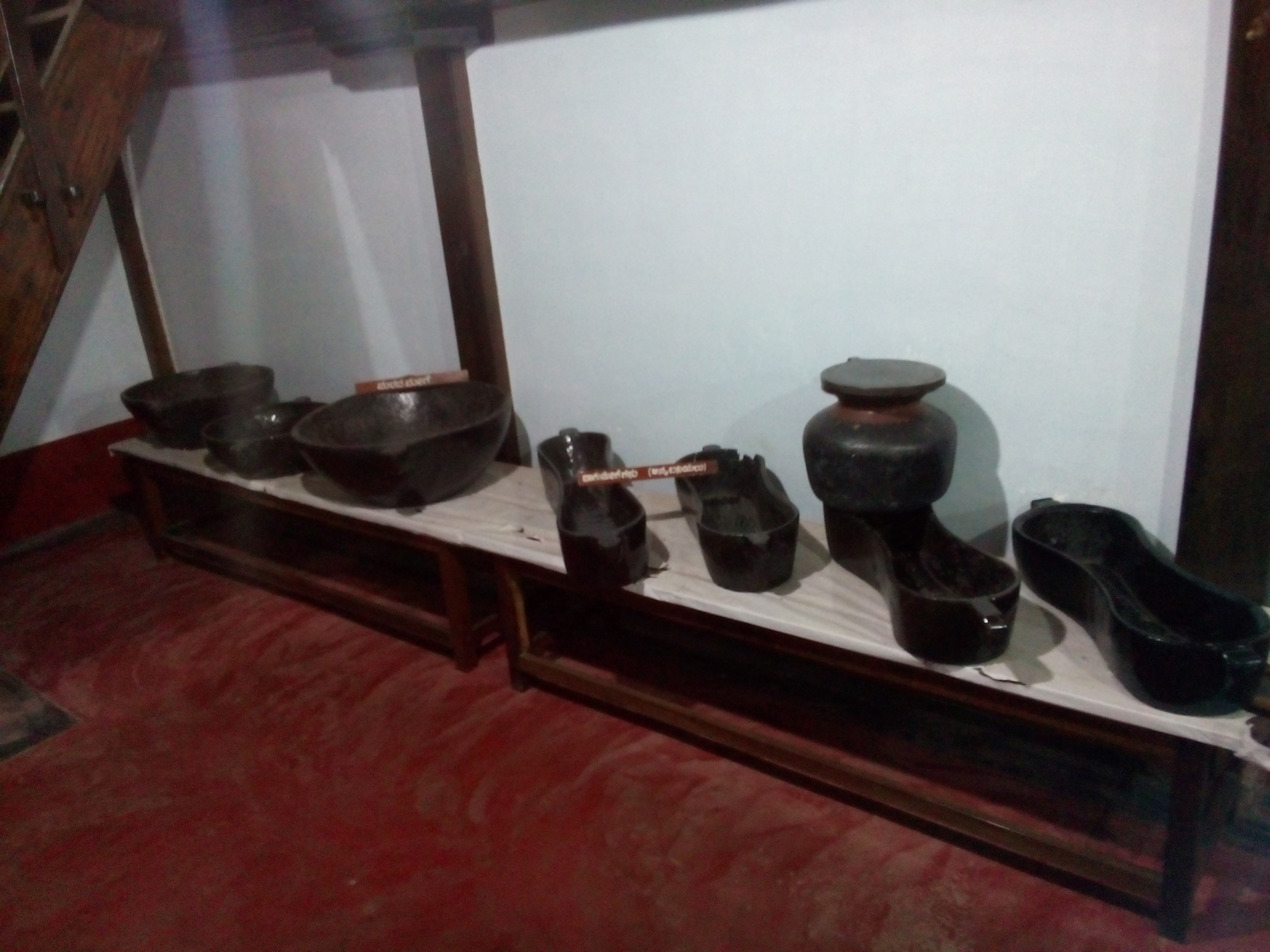 To evaporate the heat